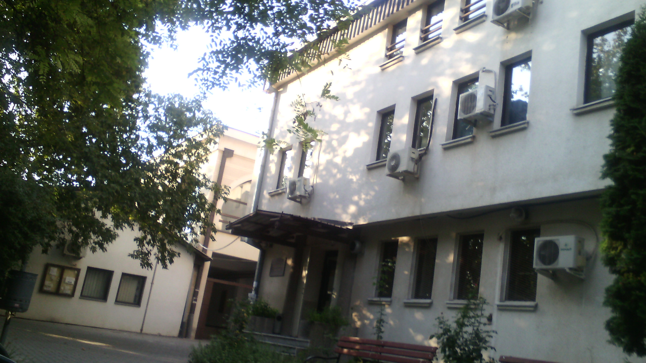 Faculty of Pharmacy in Skopje, Macedonia